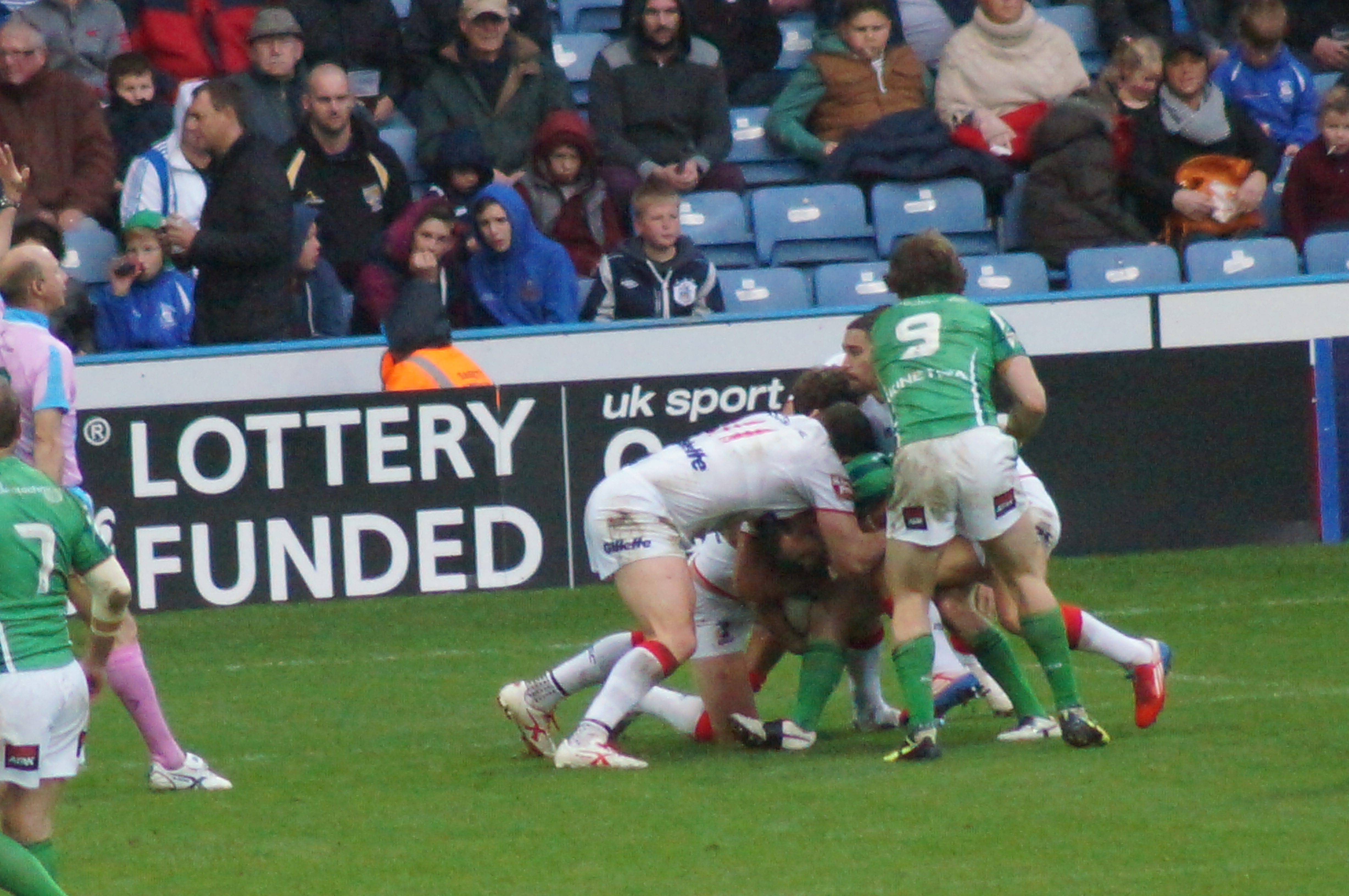 2013 Rugby League World Cup match between England and Ireland at John Smith's Stadium, Huddersfield.